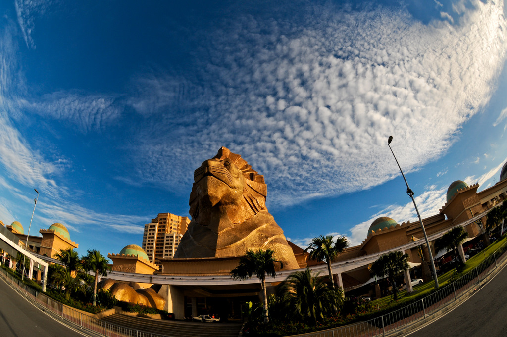 Sunway Pyramid Main Facade